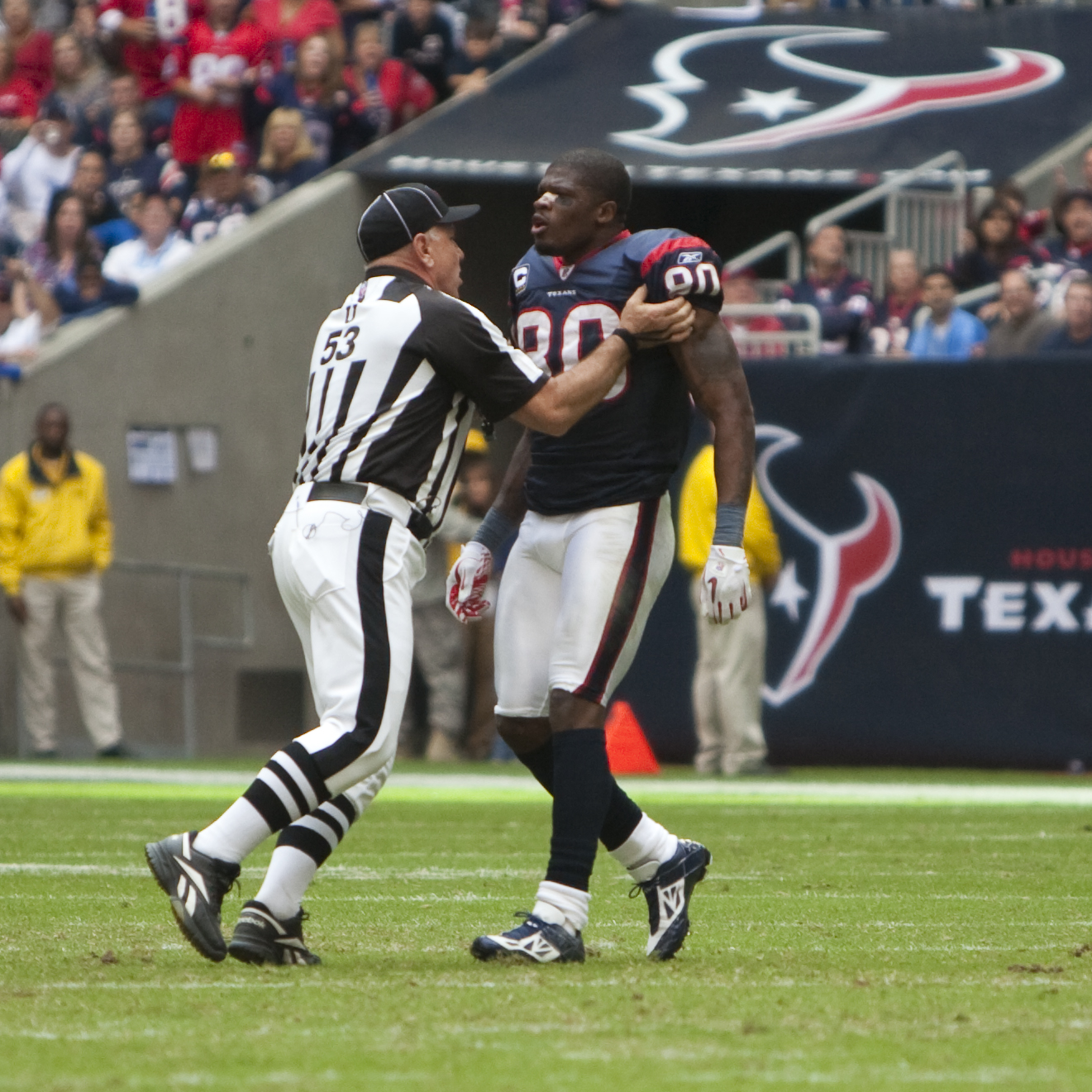 Andre Johnson restrained after a fight with Cortland Finnegan during the game between the Houston Texans vs. Tennessee Titans. Johnson was ejected. Reliant Stadium. Houston, Tx. 11-28-2010